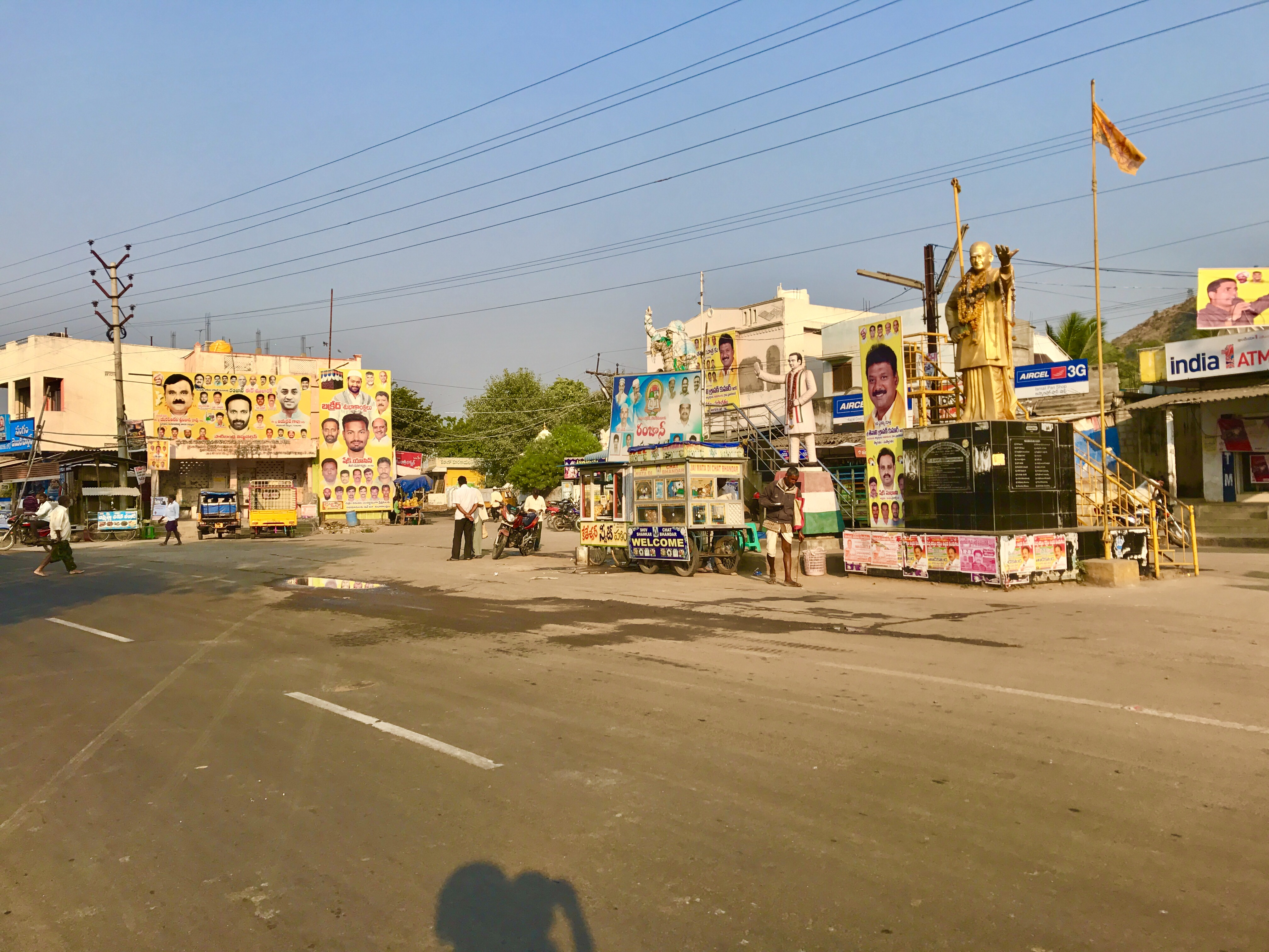 Lam Village on Amaravathi Road